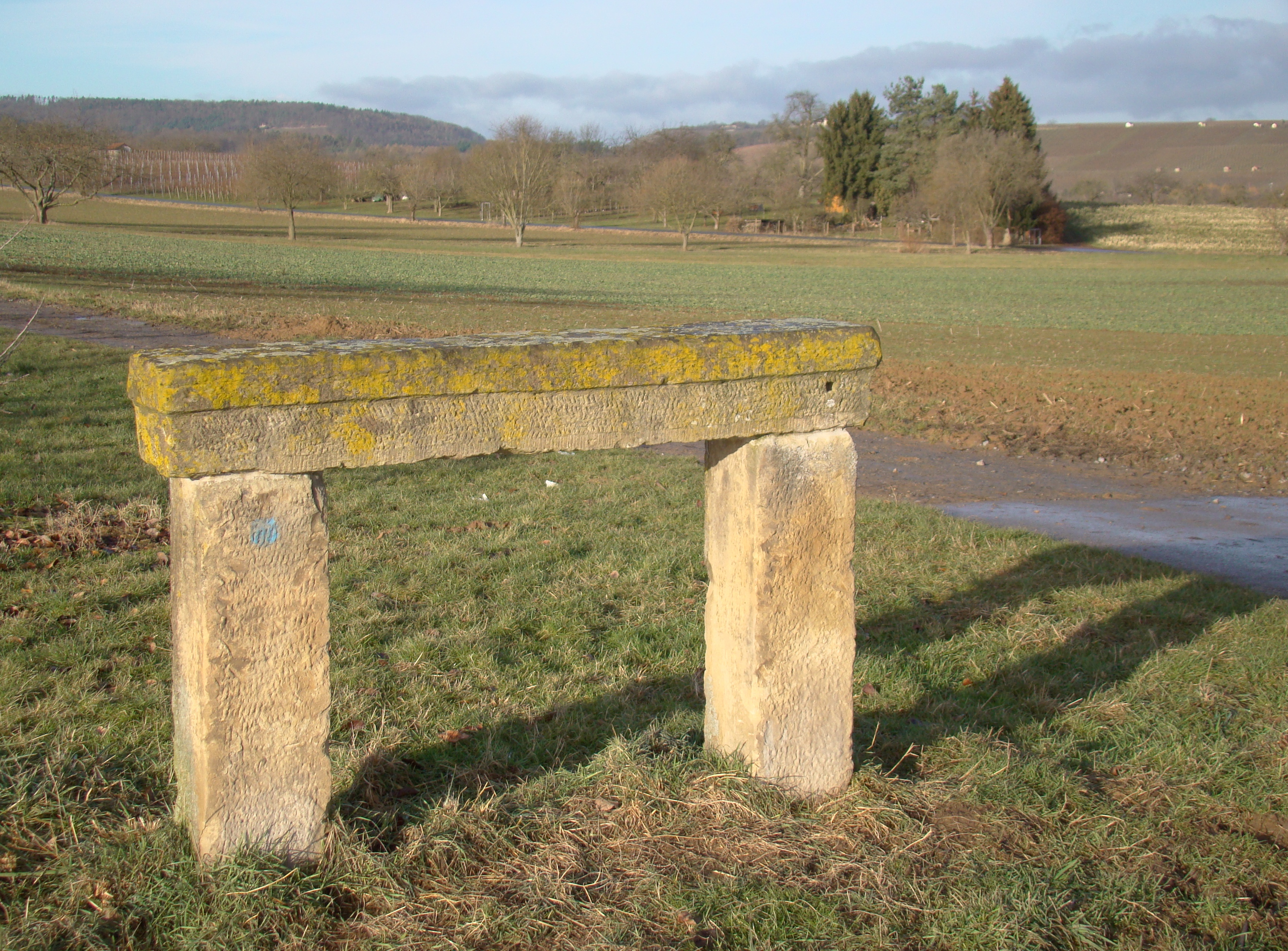 Old stone rest bench near Erligheim, front view